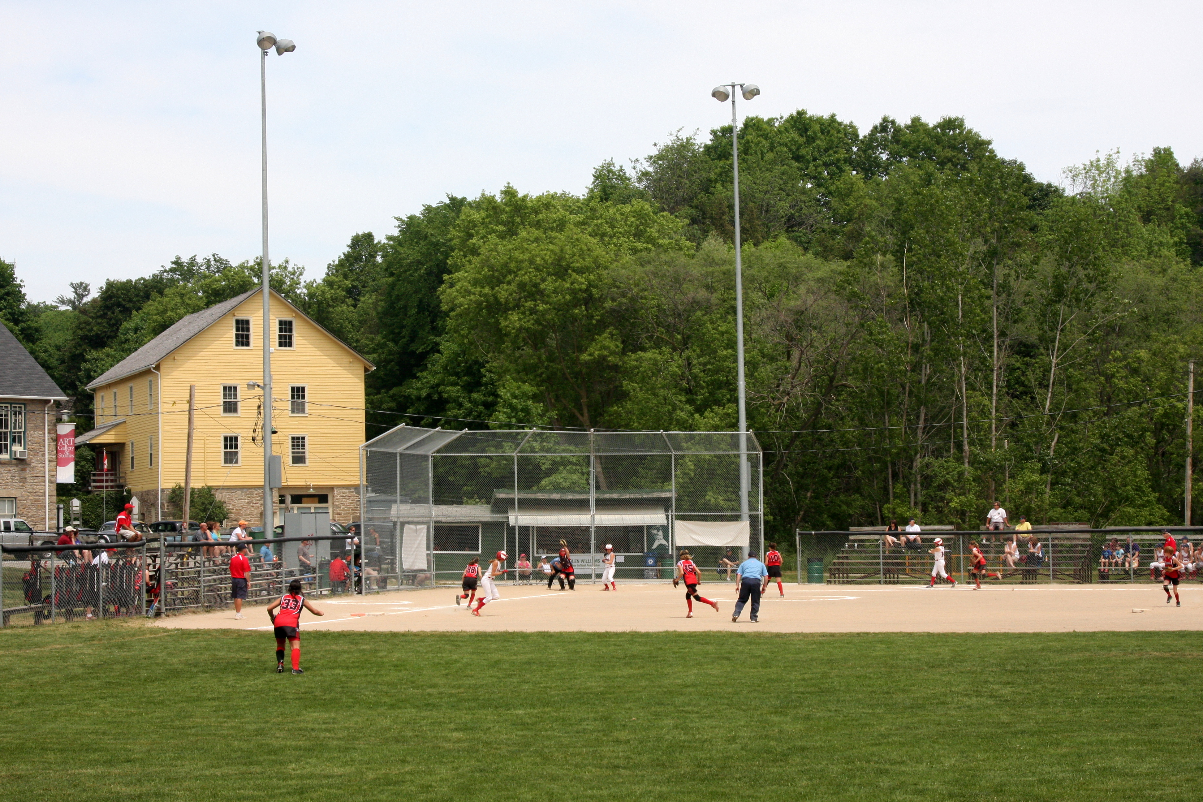 Glen Williams Park, 509 Main Street, originally built and maintained by village residents, now maintained by Town of Halton Hills staff, the park includes baseball diamonds, park pavilion, and flower gardens. Open for public use to have a picnic, organize a friendly game of baseball or listen to the sounds of Credit River flowing by.